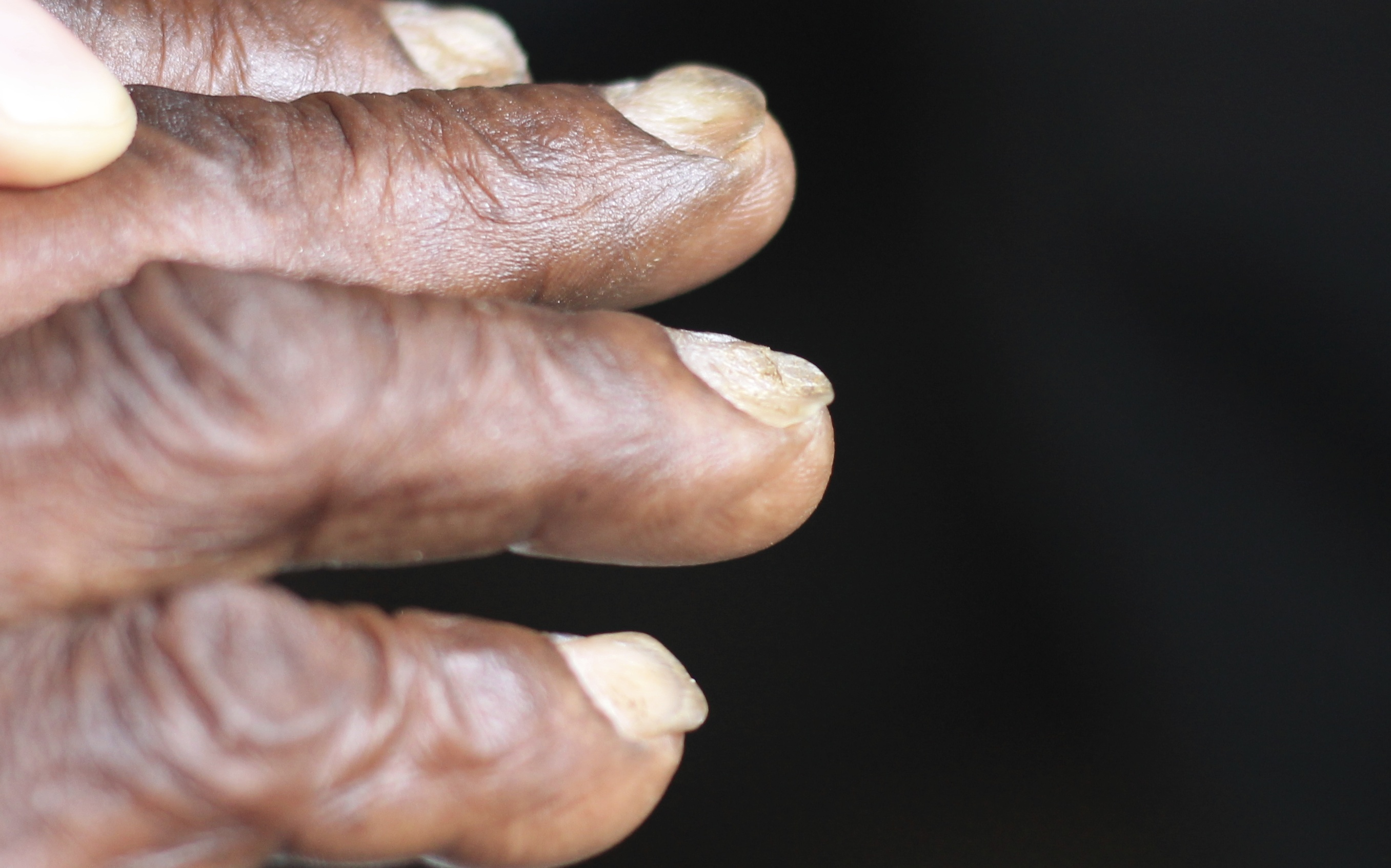 Spooning of the nails Picture by CHeitz